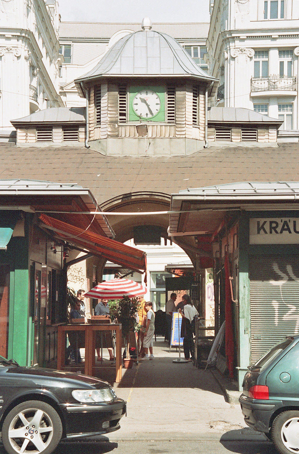 The Naschmarkt in Vienna